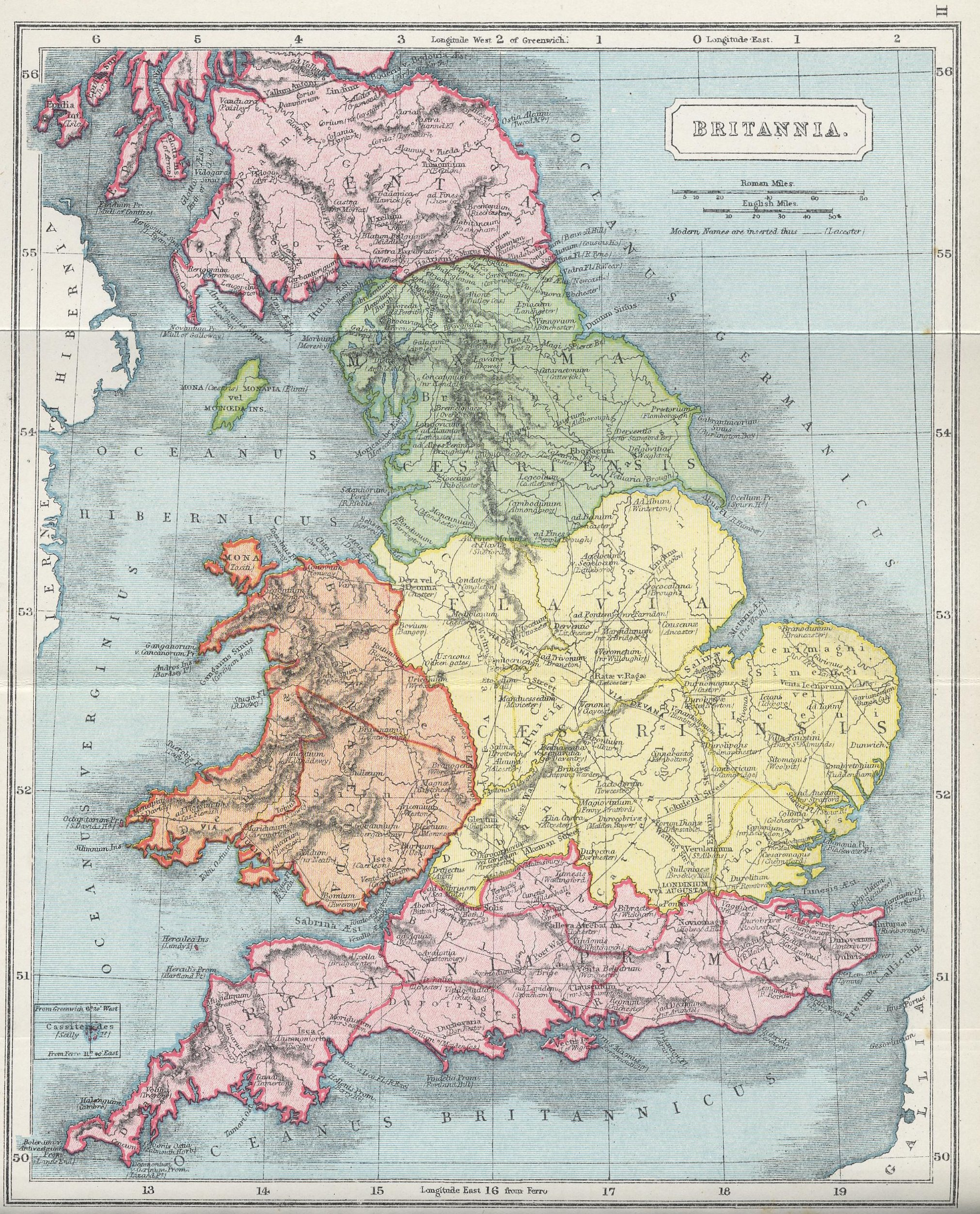 The Atlas of Ancient and Classical Geography by Samuel Butler